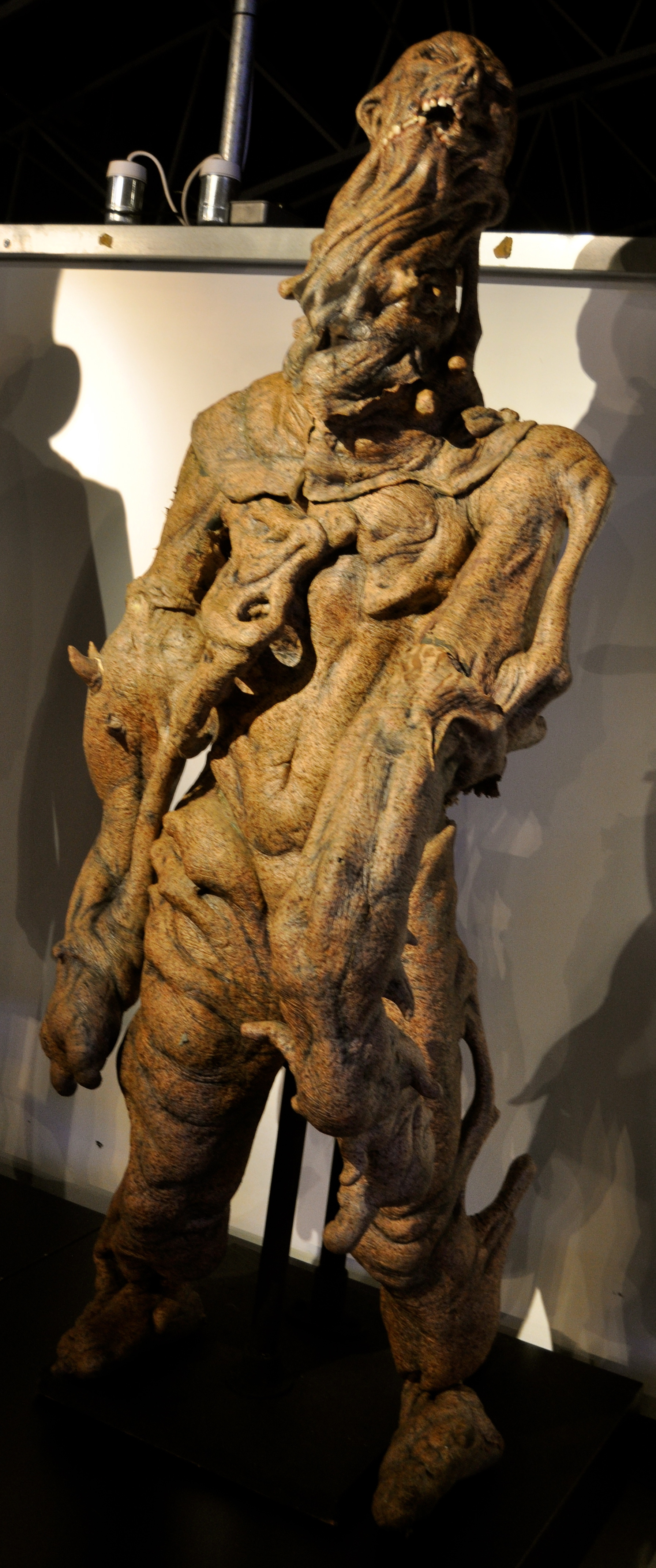 DWE Cardiff Bay, Port Teigr November 2016 Doctor Who Experience